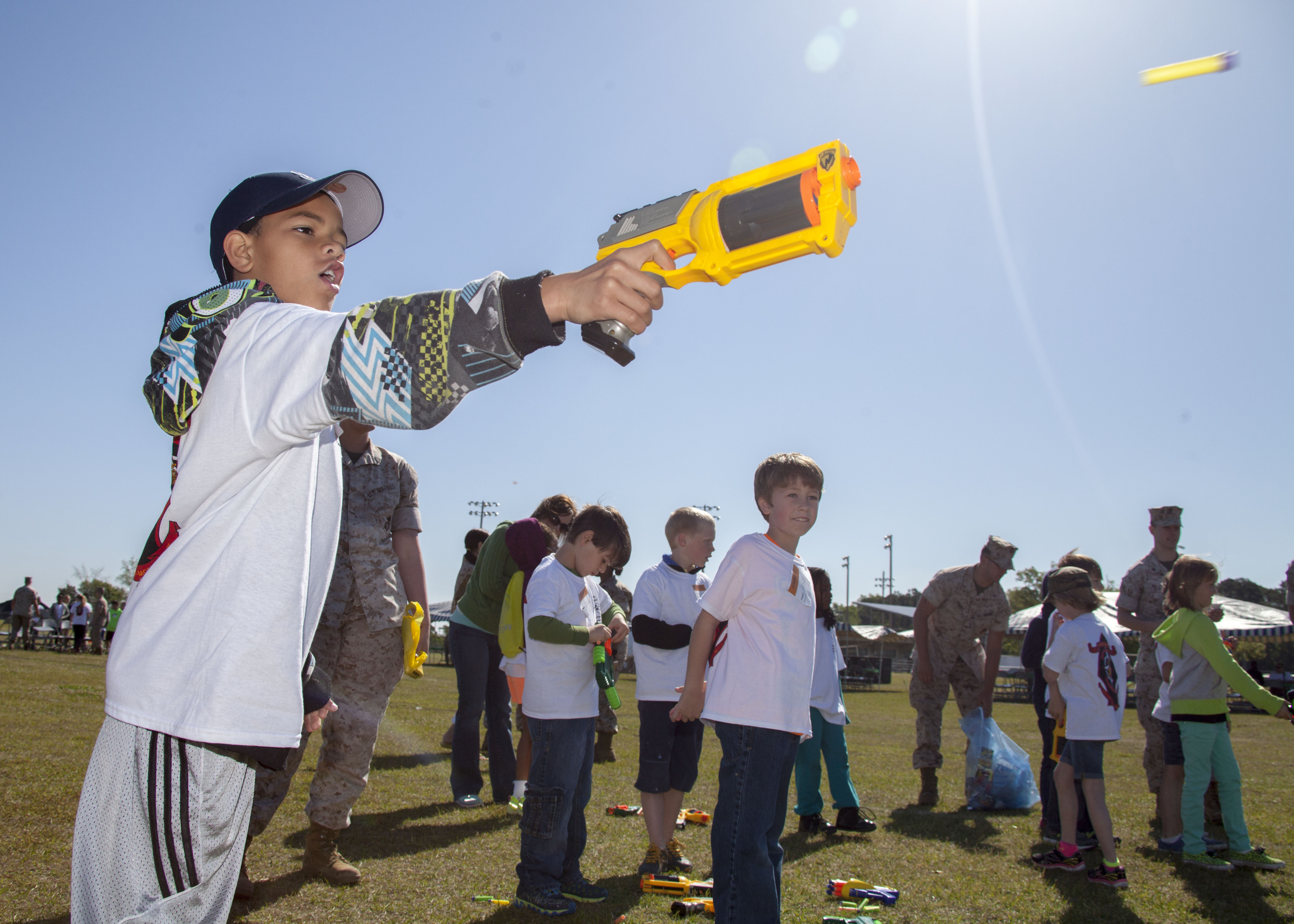 Children of U.S. Marines and Sailors with Headquarters and Support Battalion, Marine Corps Installation East, shoot Nerf® guns at a mock shooting range during the unit’s Kids Boot Camp at the Goettge Memorial Field House aboard Camp Lejeune, N.C., April 24, 2014. The event was held to commemorate National Take Your Child to Work Day. (U.S. Marine Corps photo by Sgt. Christopher Q. Stone/COMCAM, MCI-East, Camp Lejeune/Released)